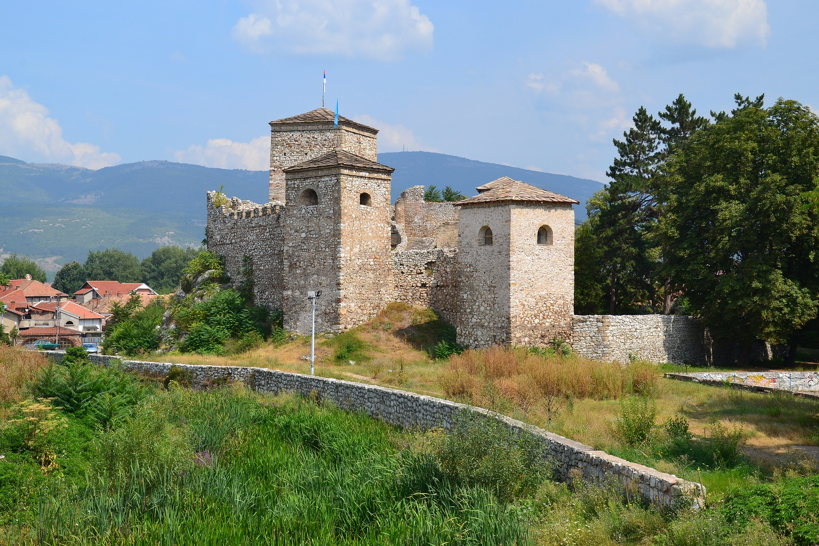 Pirot fortress, Serbia